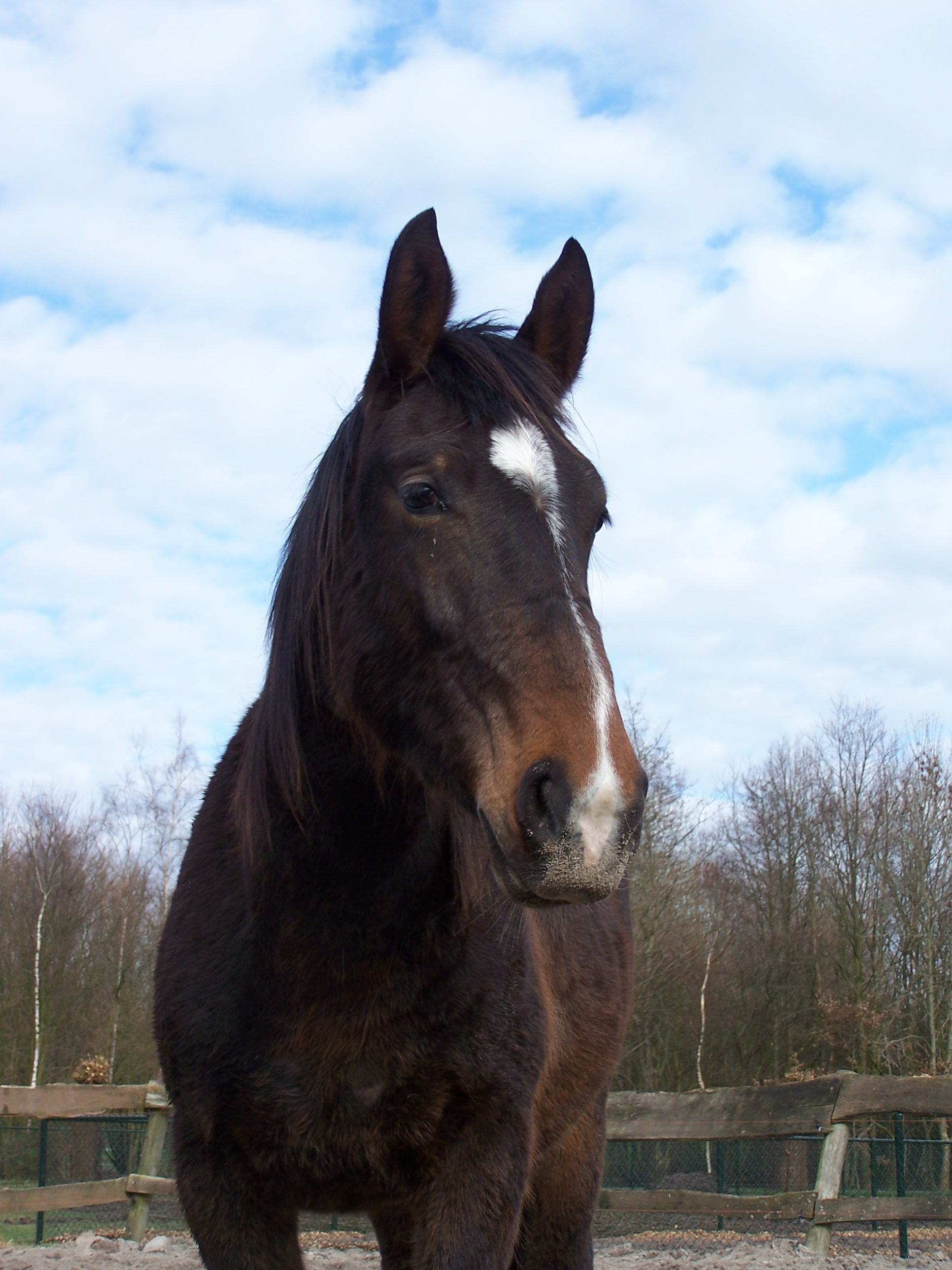 Our "groninger paard" called Ekina. She is 2 years old.